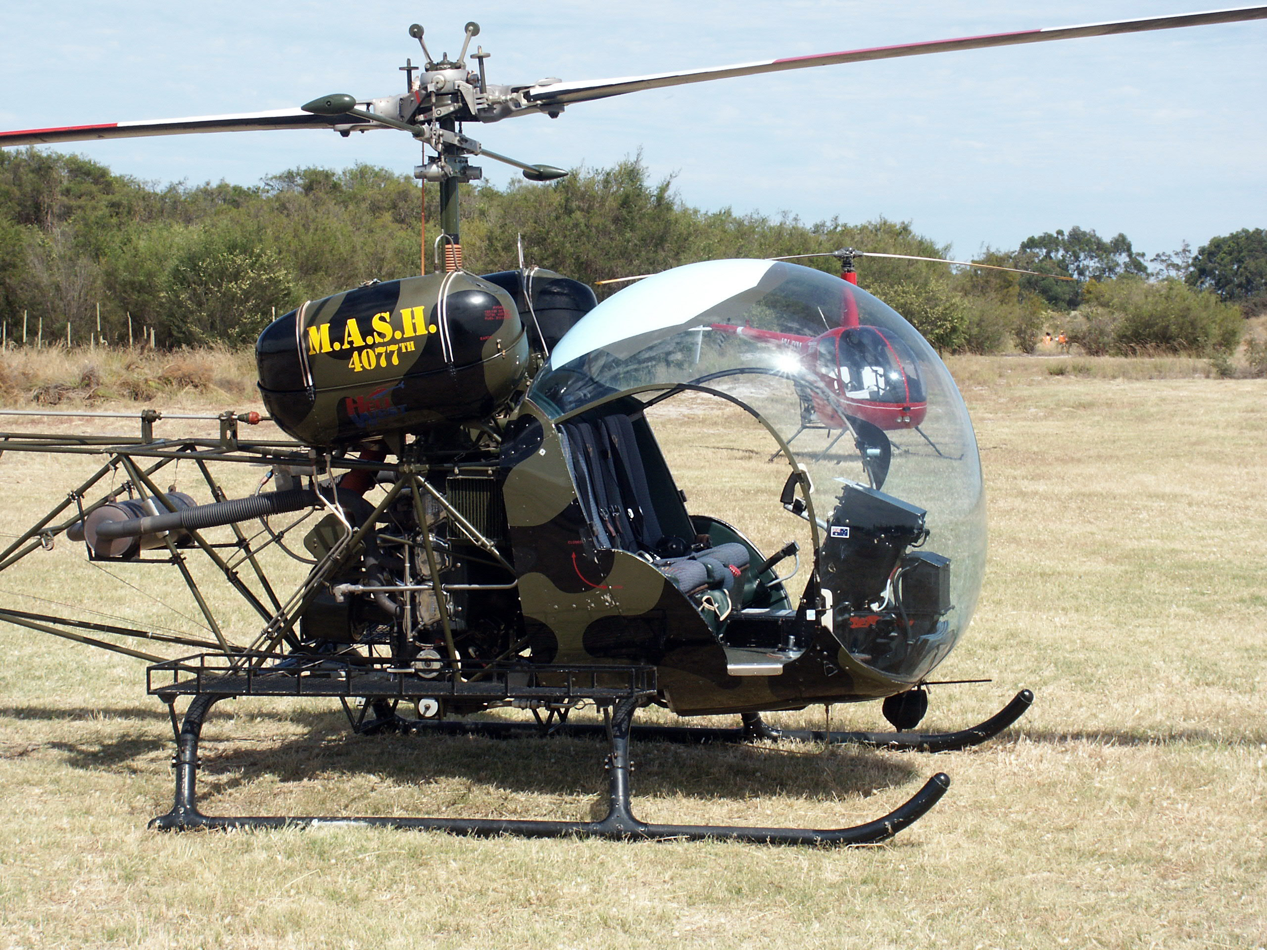 Bell 47G helicopter in MASH colours.